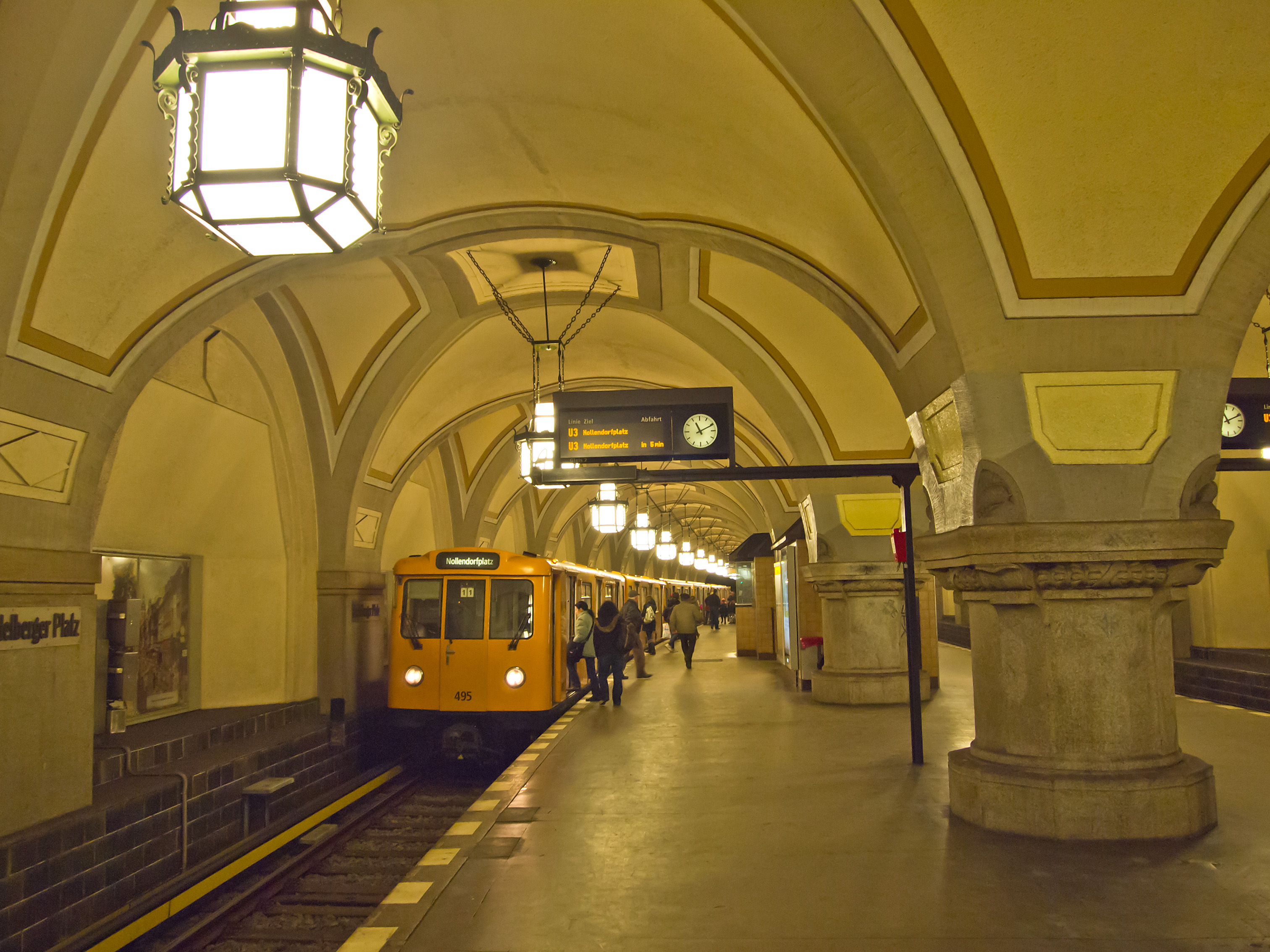 Subwaystation "Heidelberger Platz" in Berlin-Wilmersdorf, line U3